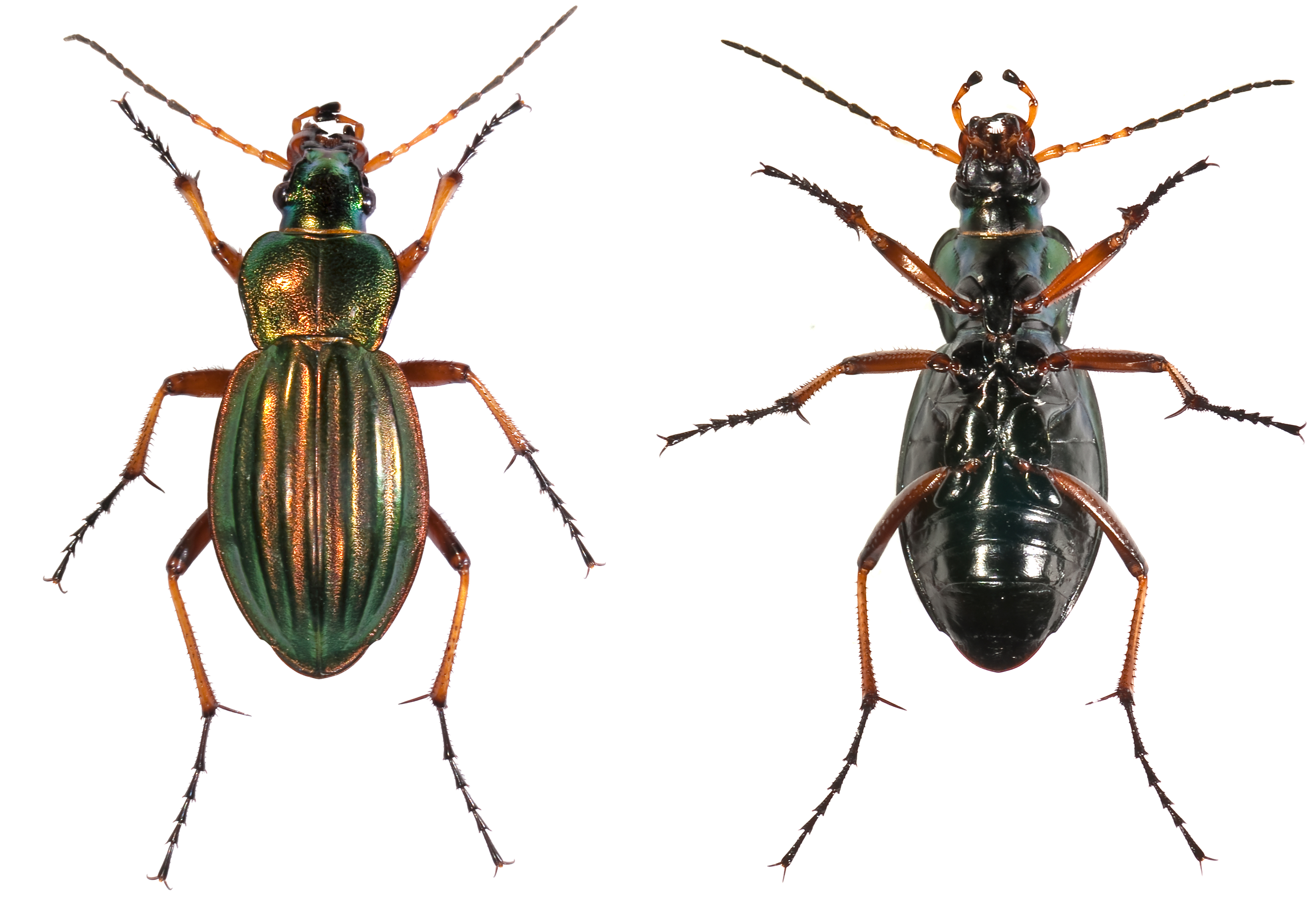 Carabus auratus (golden ground beetle) - dorsal and ventral side same living specimen collected in France. Length: 3.7 cm